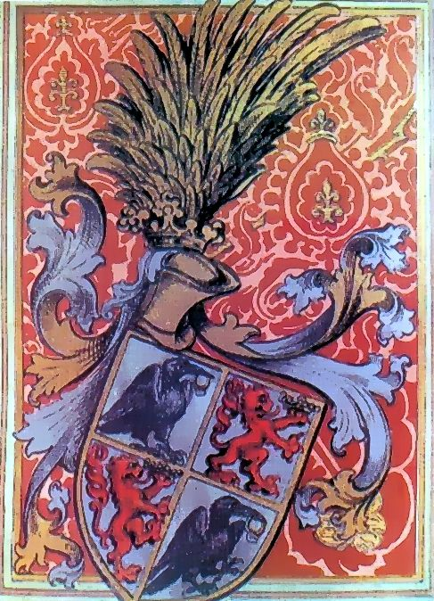 CoA of John Huniady